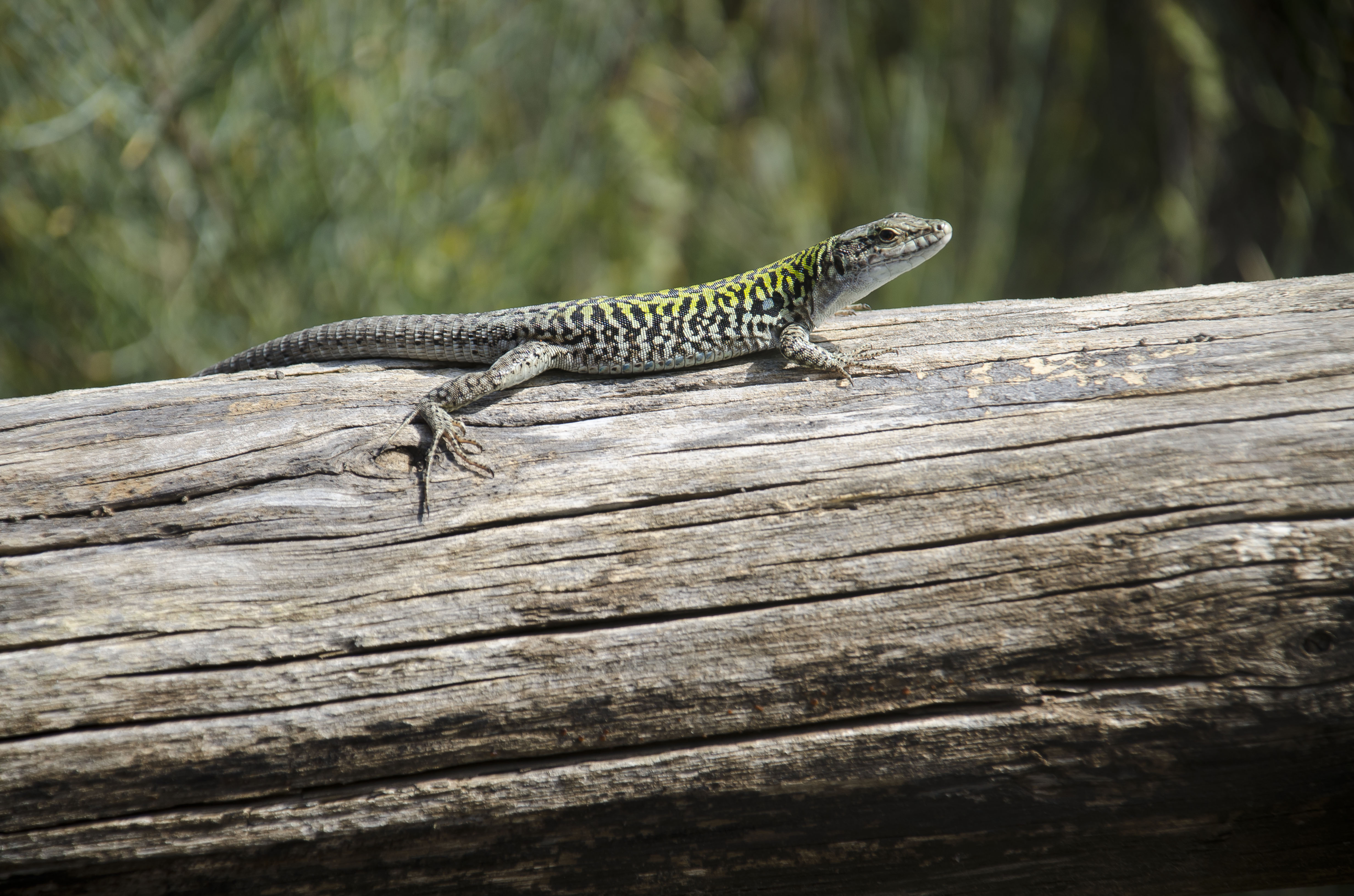 Italian wall lizard, Cavagrande del Cassibile near Noto, Sicily